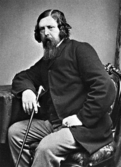 Cartes de visite photograph of David Skae from page 39 of History of Medicine Collection: Stewart Album